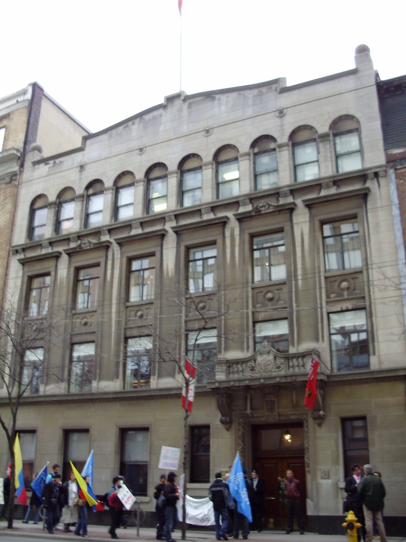 The Albany Club in Toronto, Ontario. The protestors outside are demonstrating against free trade with Colombia.